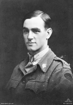 Studio portrait of George Cartwright VC, an English-born Australian Victoria Cross recipient of the First World War.